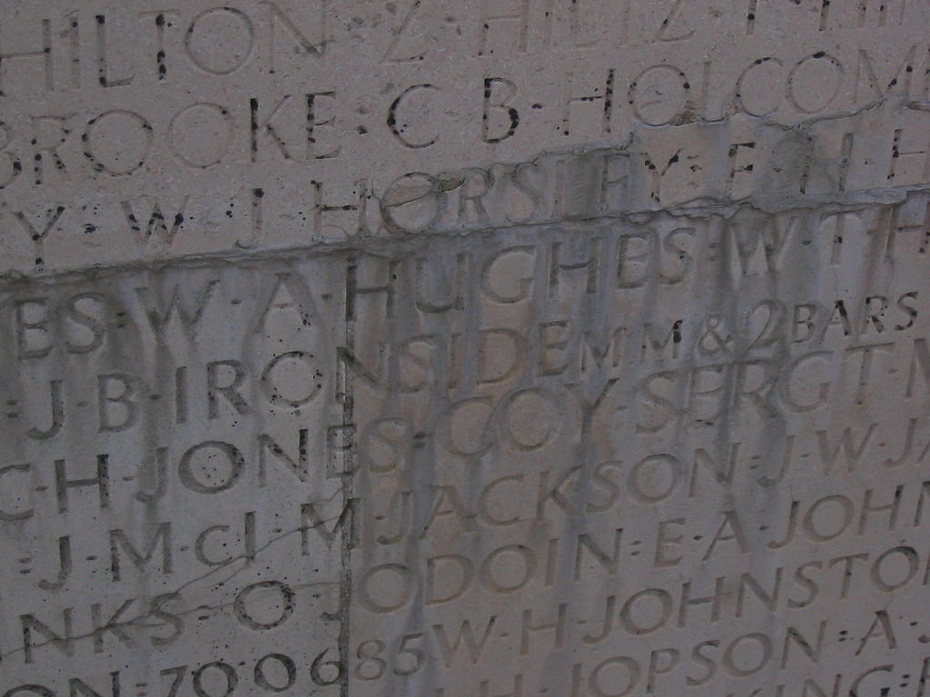 Photo of names on the memorial just prior to restortation. Ib centre: J.B. Ironside M.M w/ 2 bars